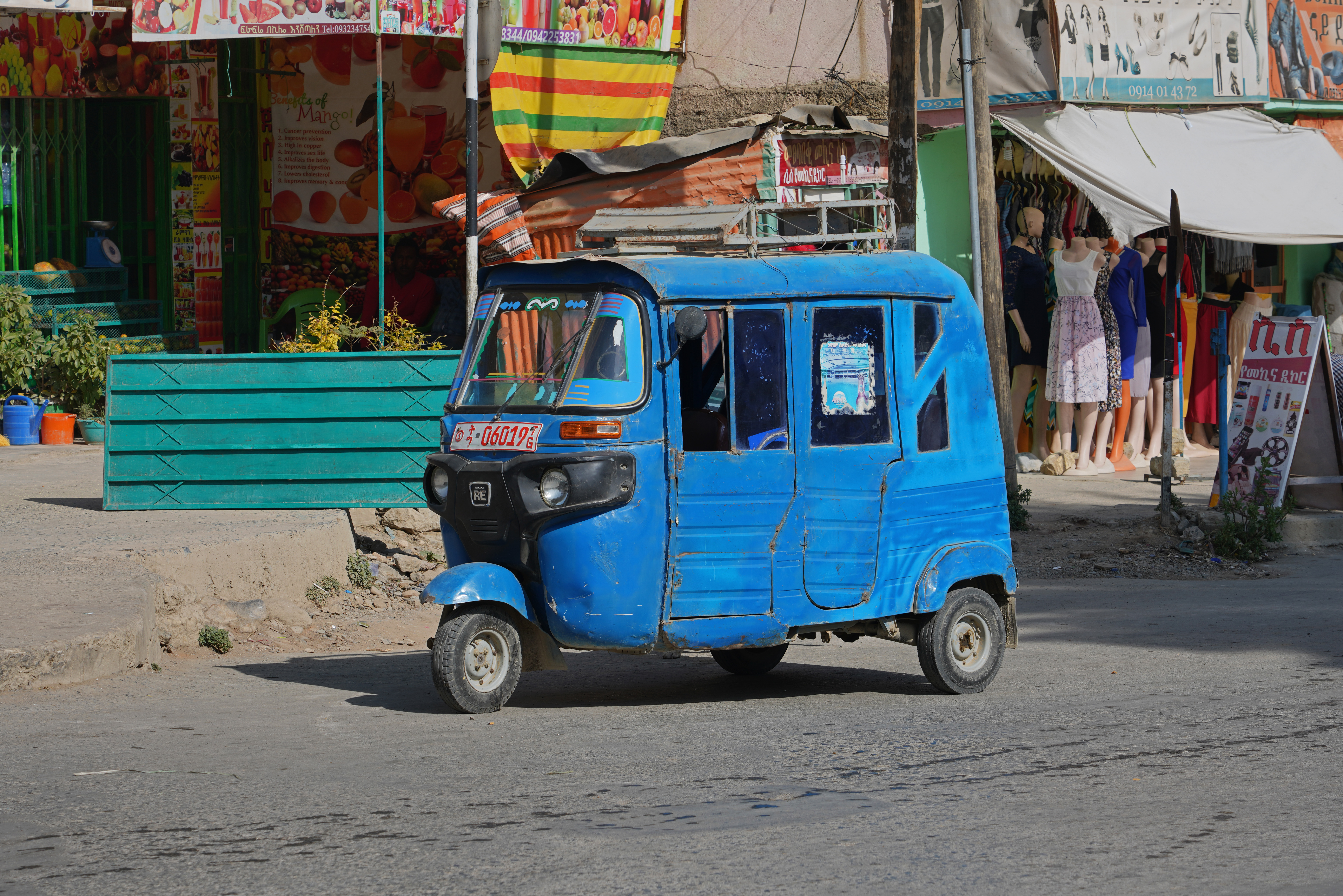 Tuk-tuk in Mekele, Ethiopia